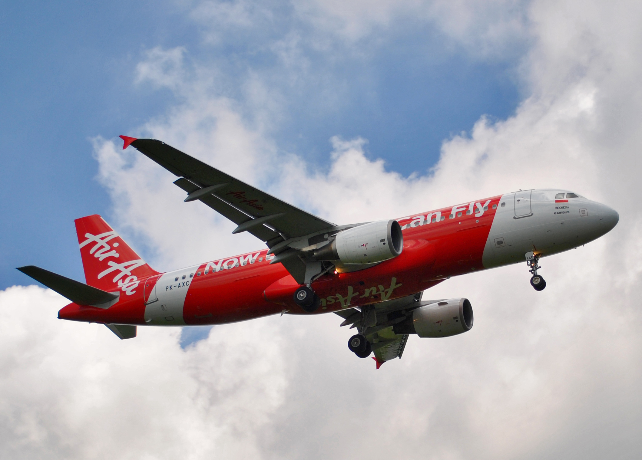 Indonesia AirAsia Airbus A320-200 (PK-AXC) landing at Ngurah Rai International Airport, Tuban, Badung Regency, Bali. 8 months later, PK-AXC crashed into the Java Sea.